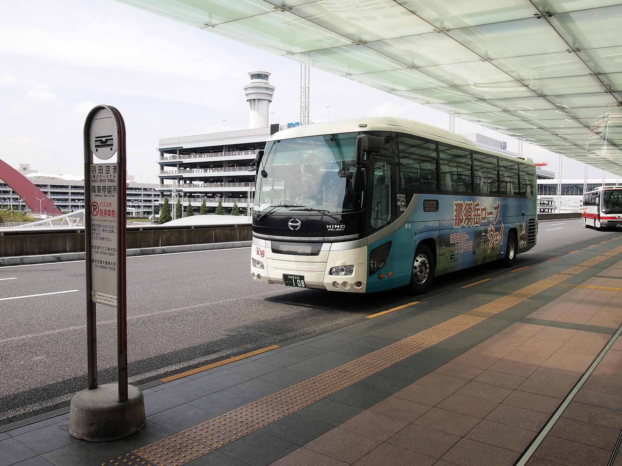 Fleet of Toya Kotsu, Airport Shuttle "Marronnier Haneda" from Sakura, Tochigi via Utsunomiya and Sano. License plate: TGU230 I-108